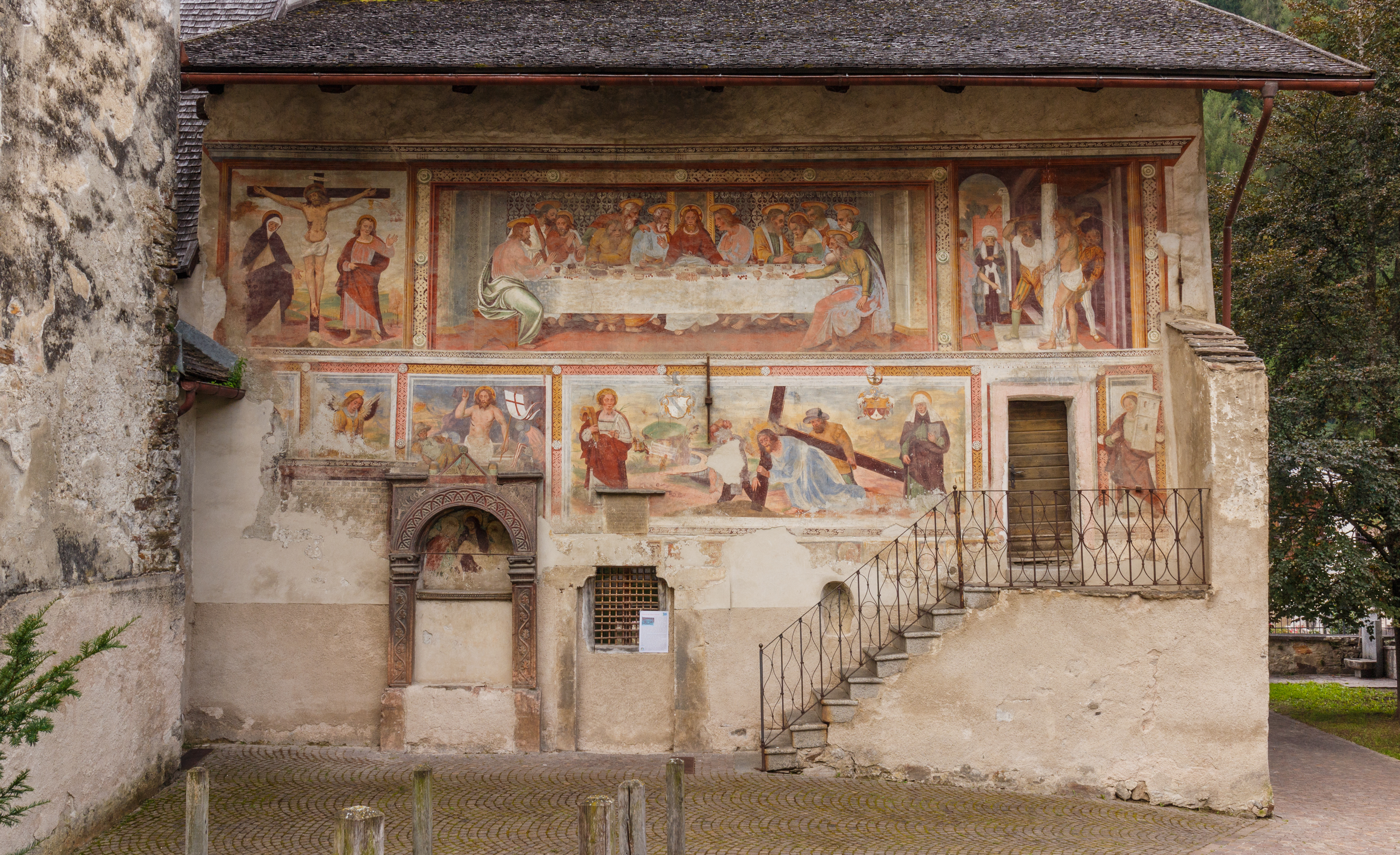 Mountain walk from Cogolo di Peio naar M.ga Levi (2015 m) in the Stelvio National Park (Italy). Chiesa di San Filippo e San Giacomo, mural painting.